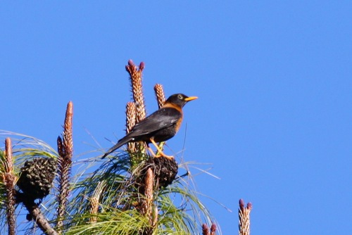 A male Rufous-collared Robin. Seen a couple km east of San Cristobal, Chiapas state, Southwest Mexico.